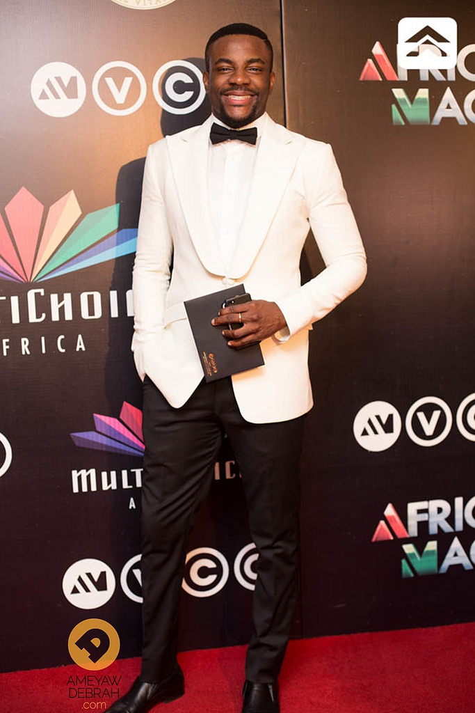 Ebuka Obi-Uchendu at the 2014 Africa Magic Viewers Choice Awards